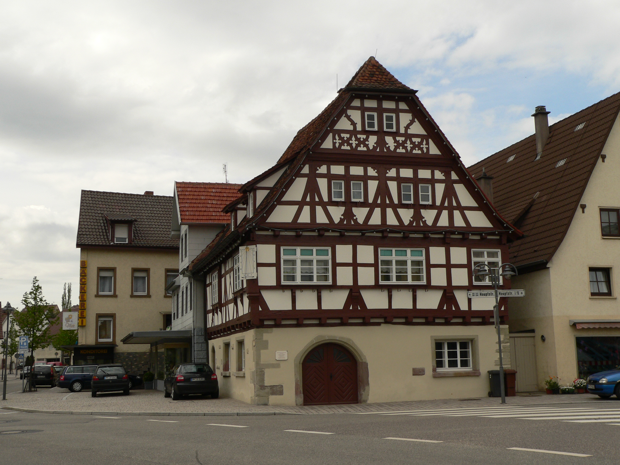 Old town hall (1584–1890) in Birkenfeld (Enz), Germany